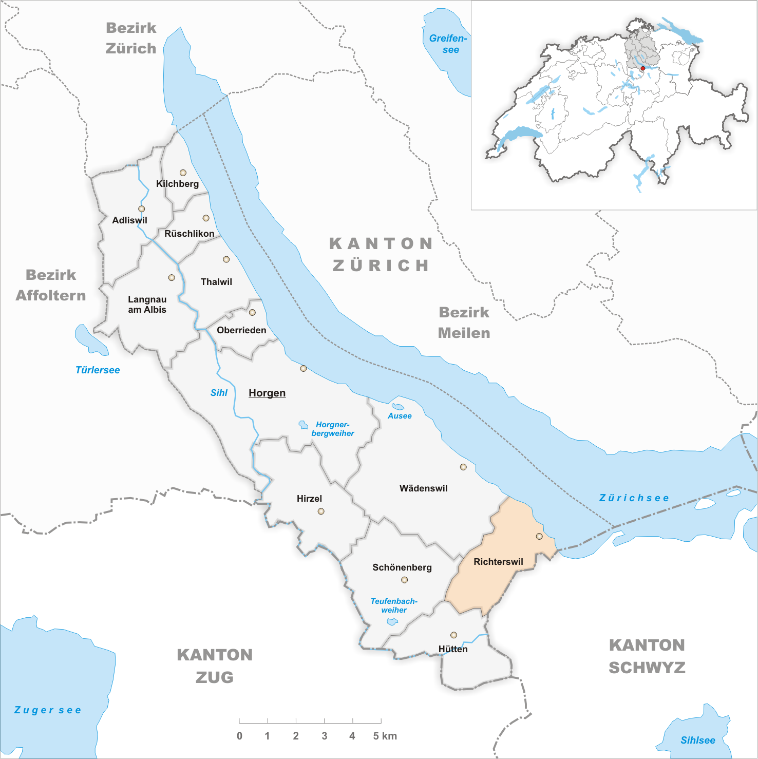 Municipality Richterswil